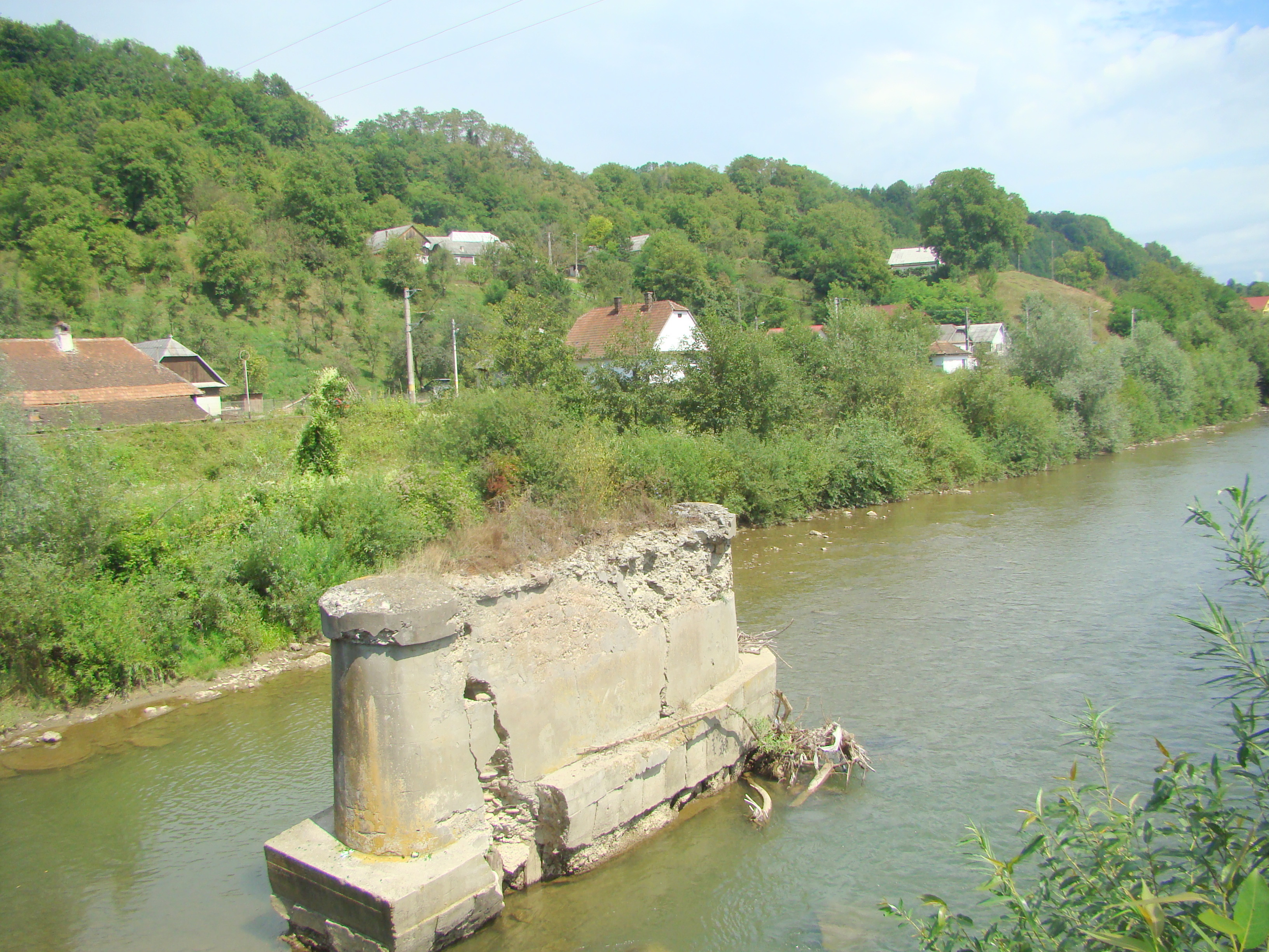 Nepos, Bistrița-Năsăud county, Romania